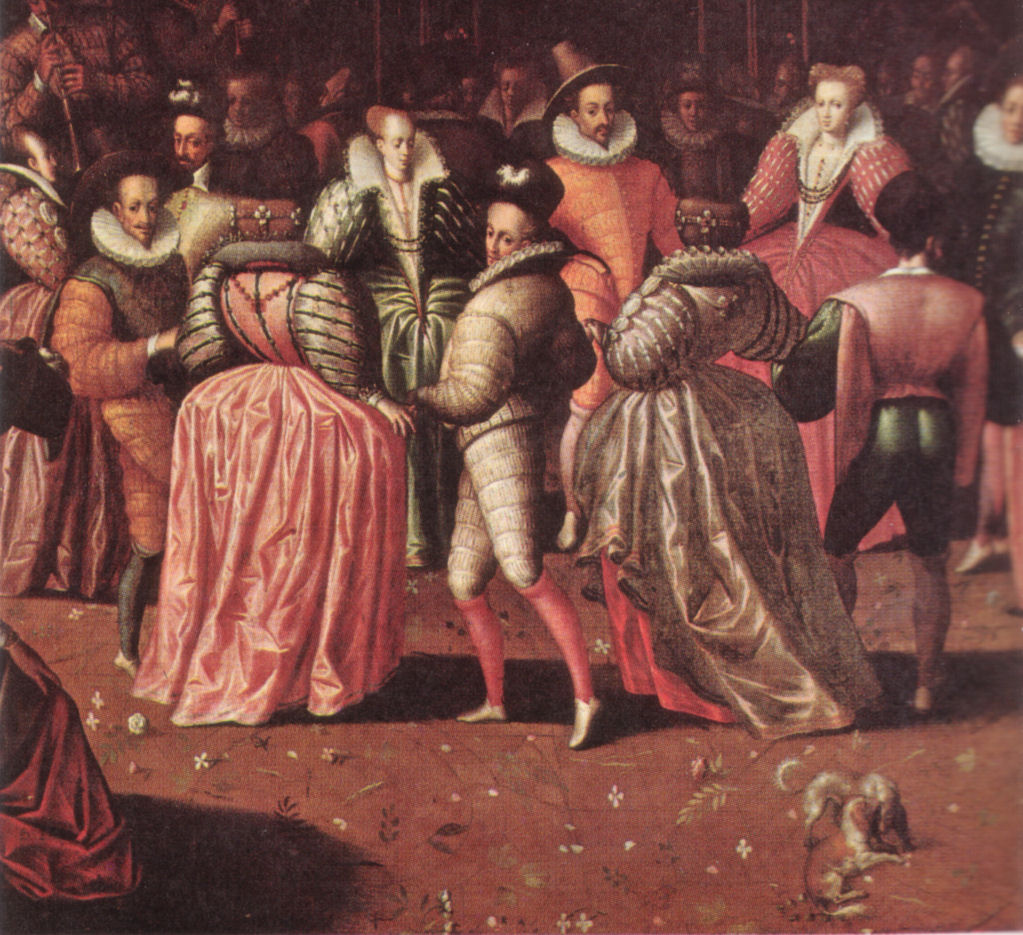 Ball at the Court of Henry III of France.